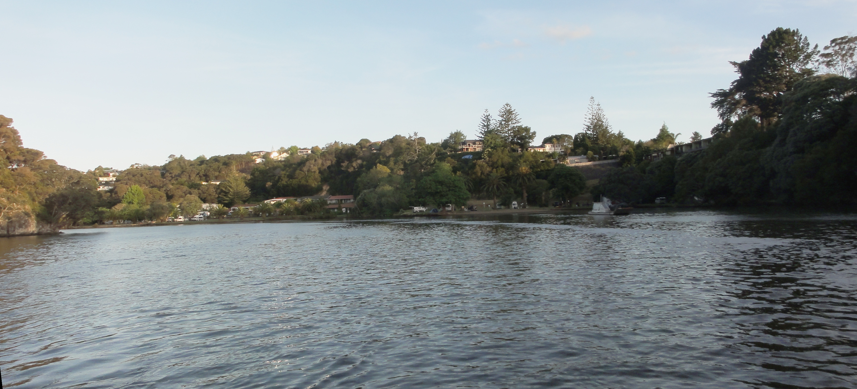 parts of Haruru Falls village, just below the Haruru Falls of Waitangi River, Fart north district, Northland, New Zealand